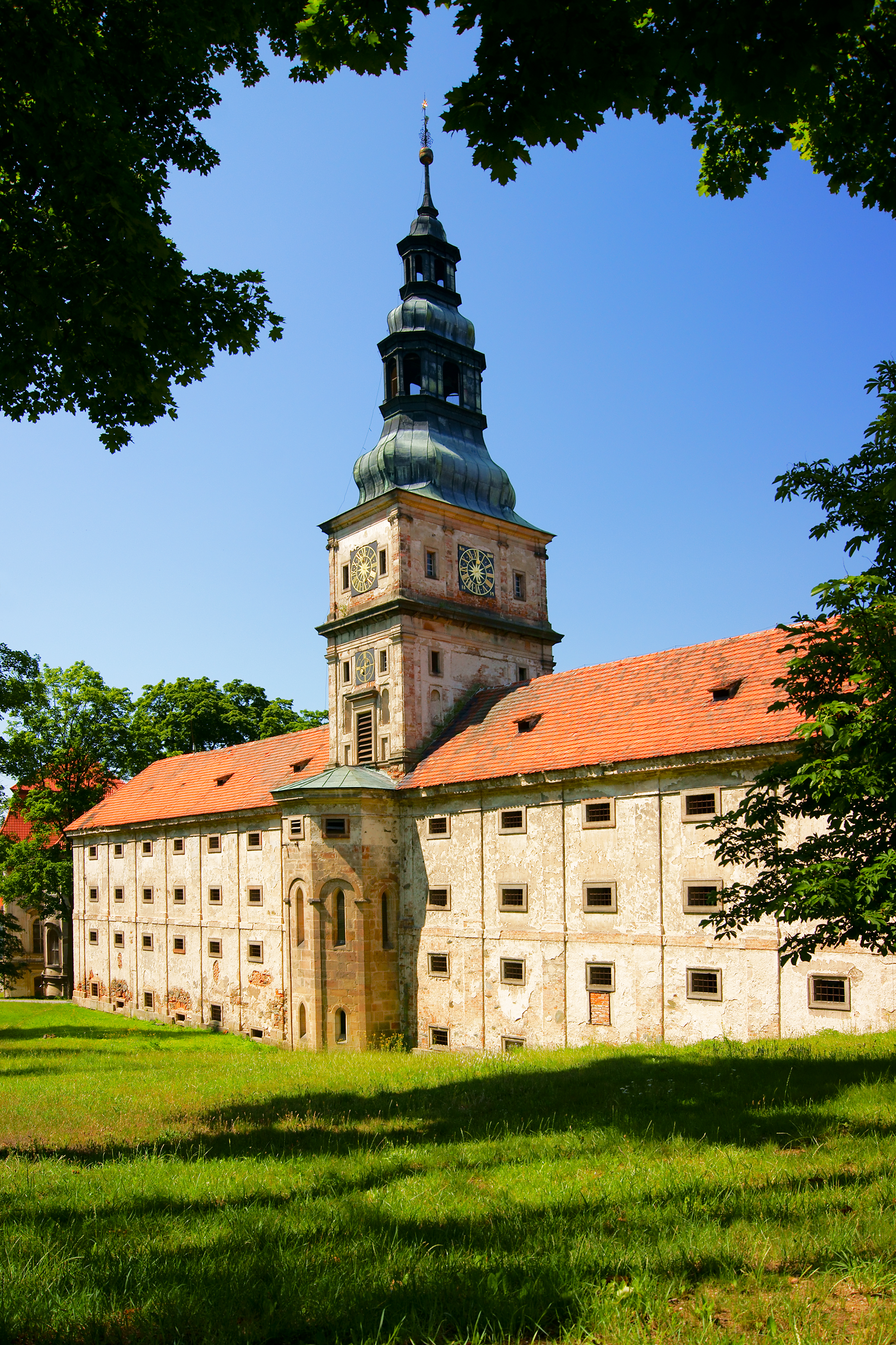 Plasy (Czech Republic), Cistercian monastery.